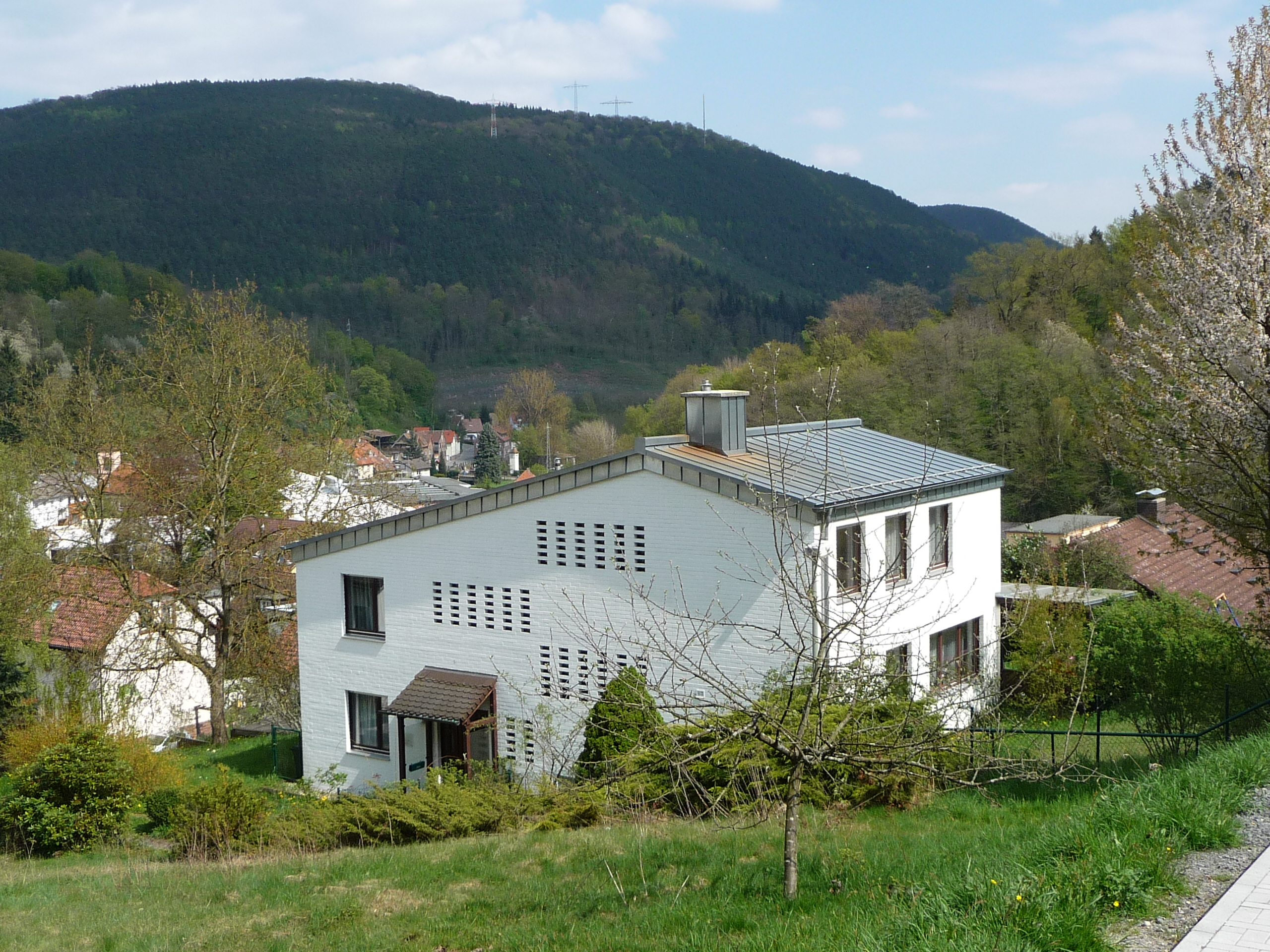 Frankeneck